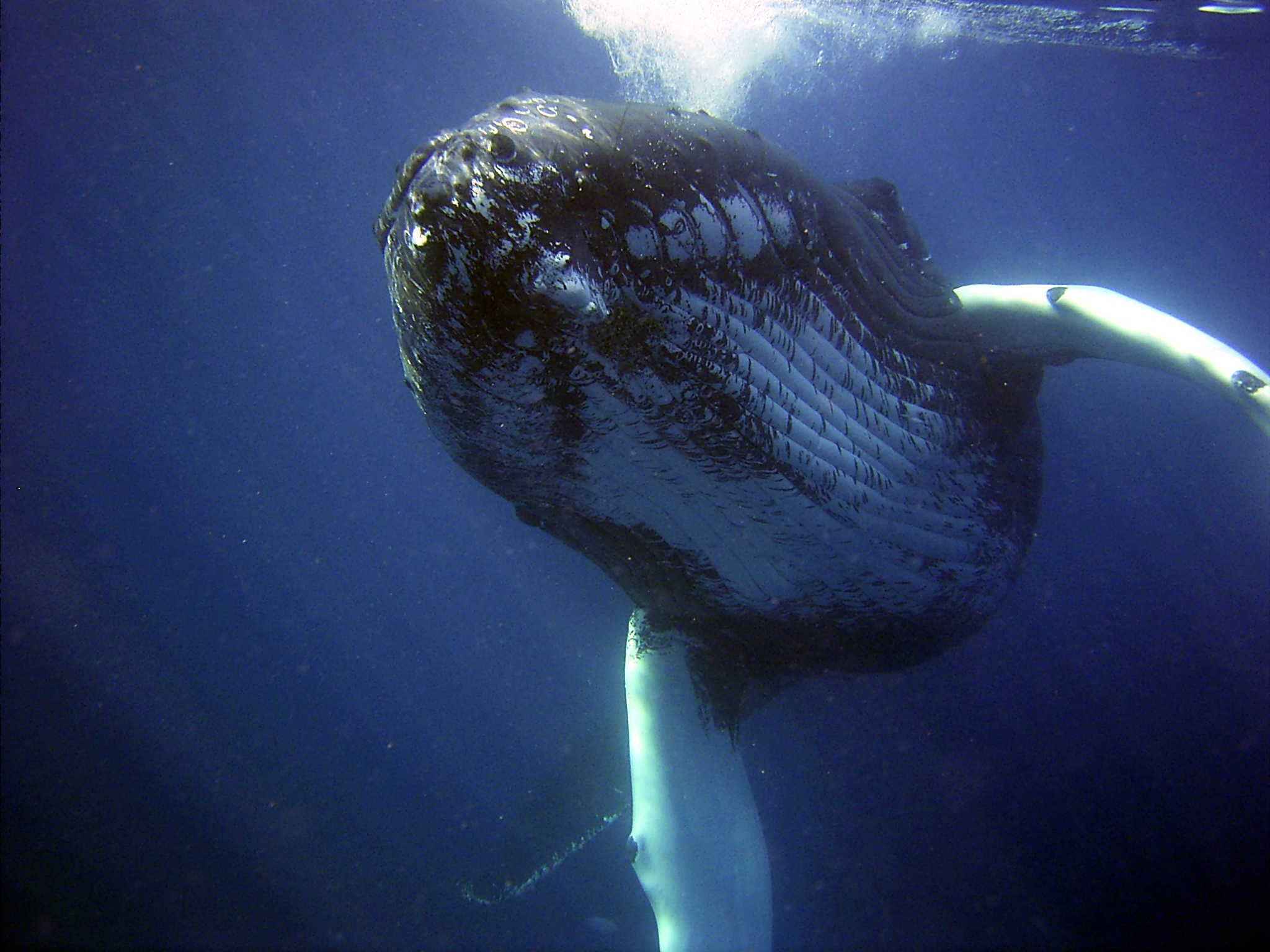 Curious humpback whale inspecting diver.